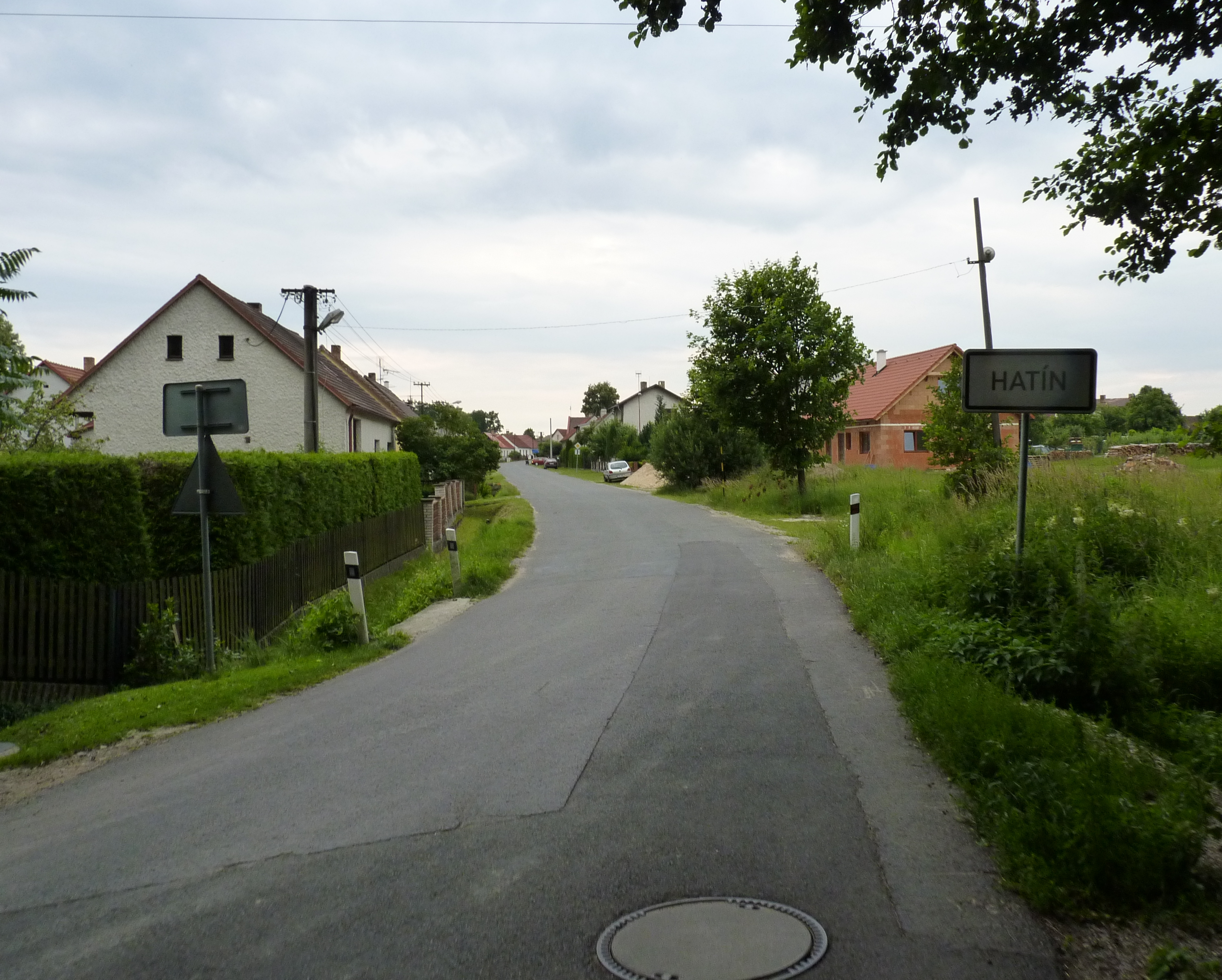 Hatín. Jindřichův Hradec District, South Bohemian Region, Czech Republic